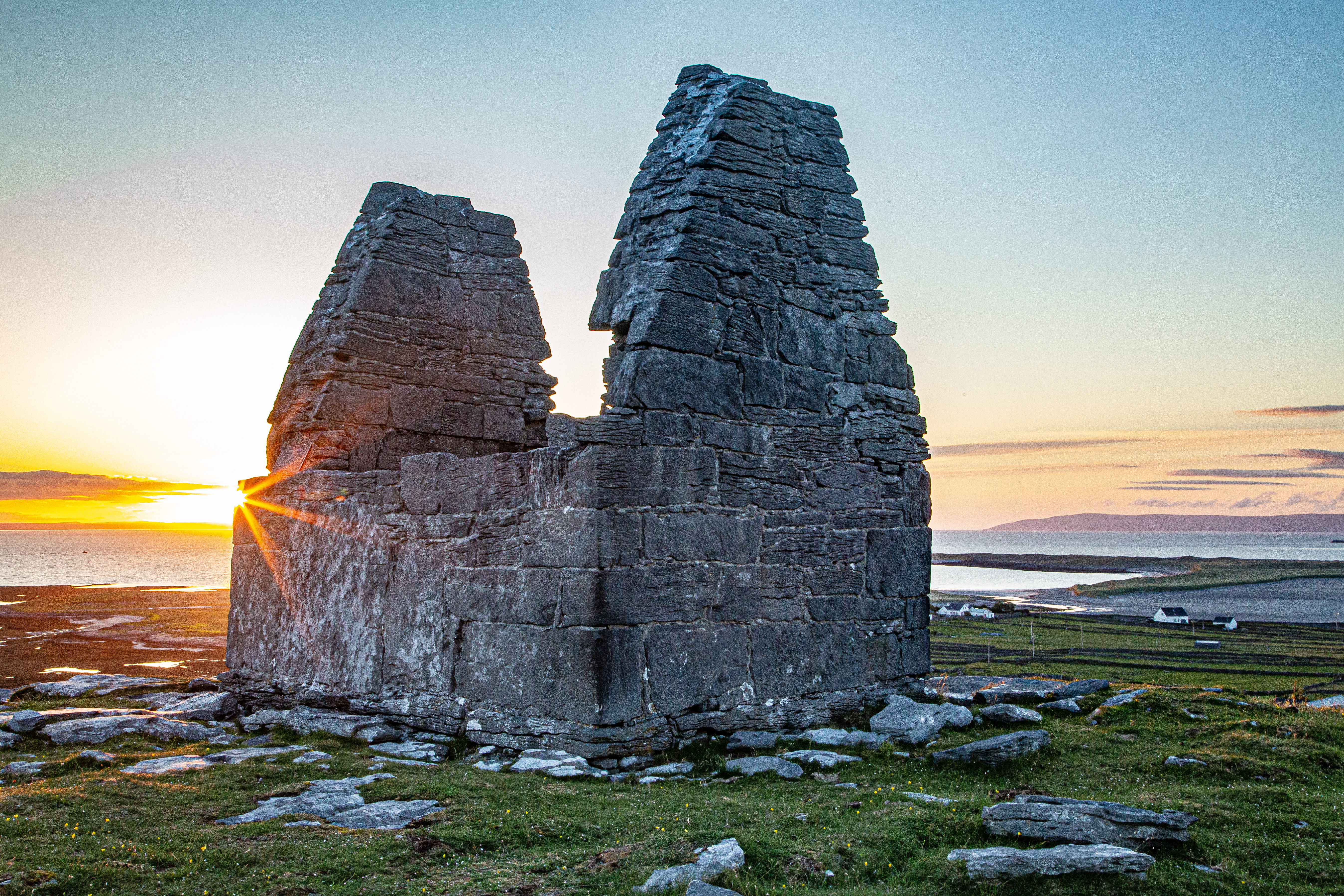 Sunrise at Teampall Bheanáin. Captured by me, Tim Davis at 5:24 am on June 12th, 2019